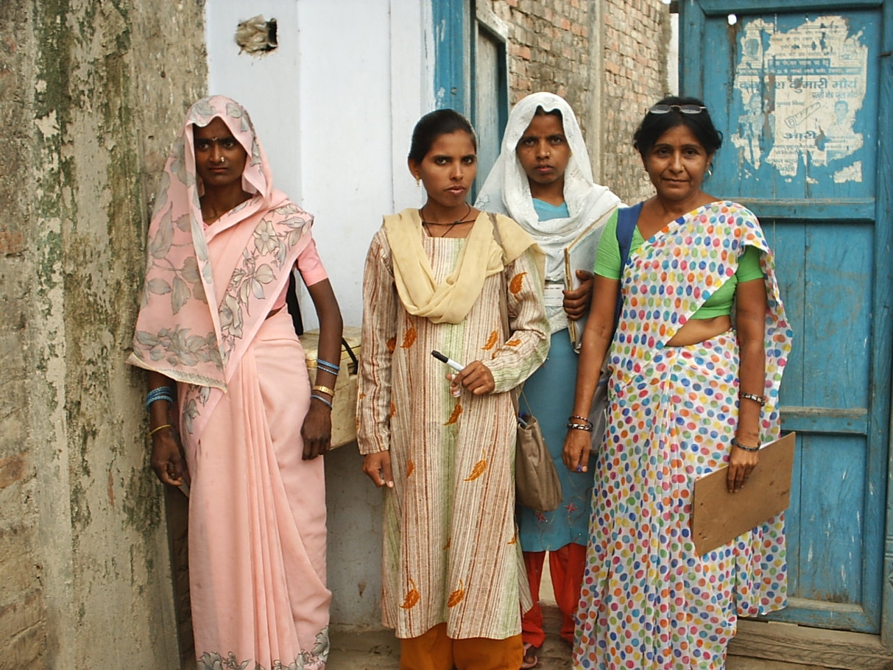 In India, where polio has been eliminated, female health workers prepare for yet another day of immunization activities to keep their citizens safe from imported cases of polio as well as other possible threats. They know that vaccines work to protect people from vaccine-preventable diseases and prevent 2-3 million deaths around the world every year. This is why female health workers continue to join in global immunization efforts no matter what challenges lie ahead. © Photo Credit: AJ Williams/CDC